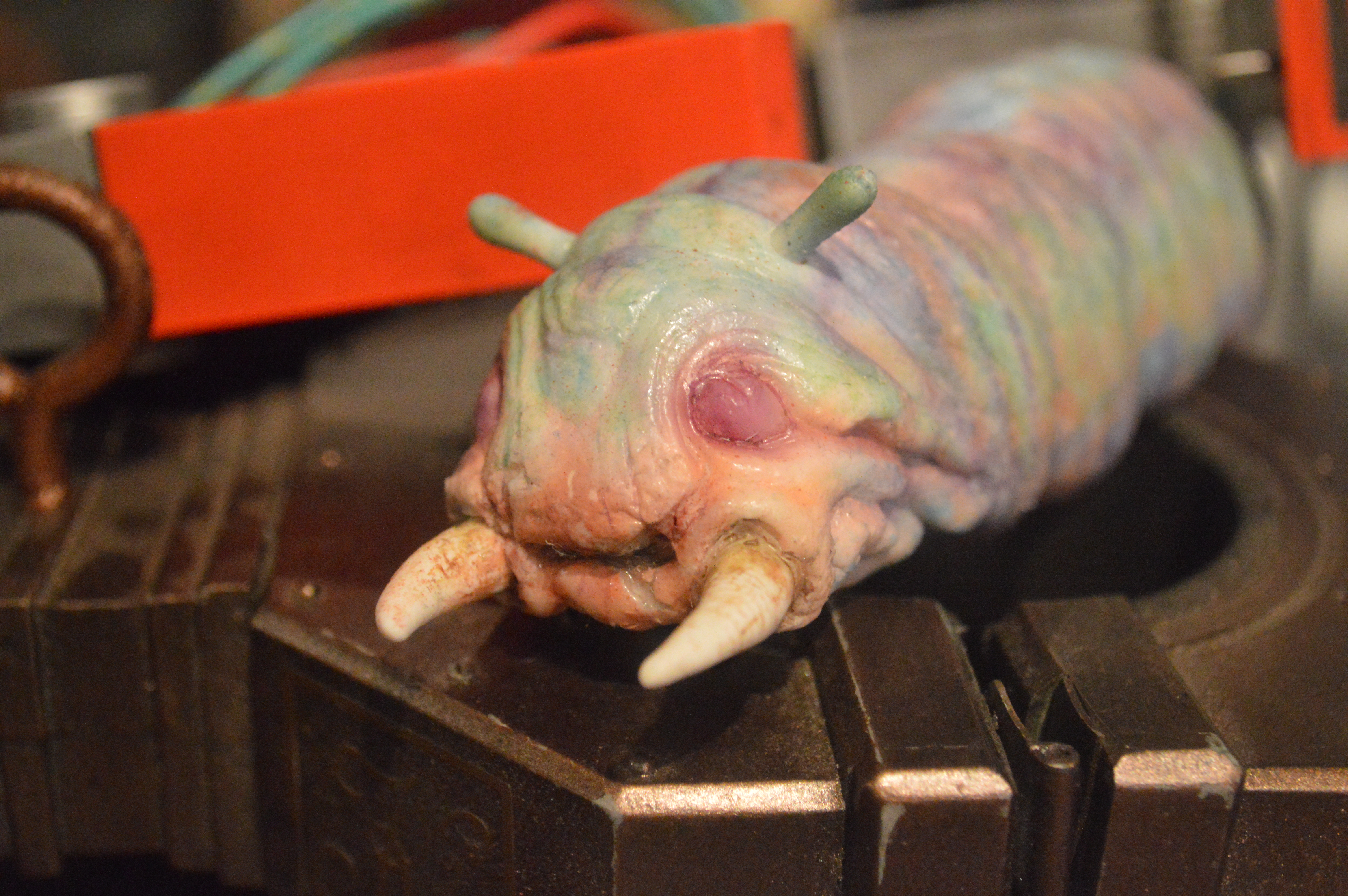 From the 2014 story, "Time Heist" Doctor Who Experience